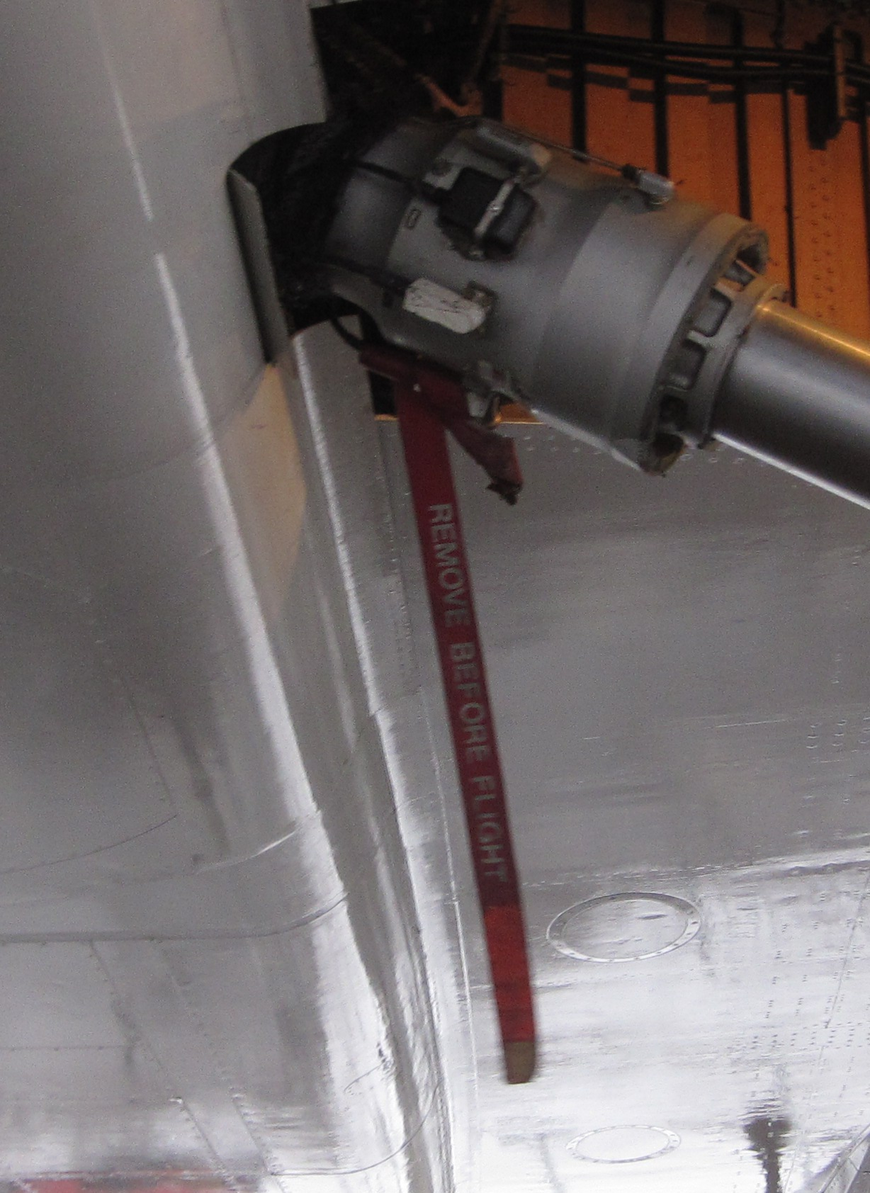 Close-up of "Remove Before Flight" ribbon attached to a component of Concorde G-BBDG landing gear